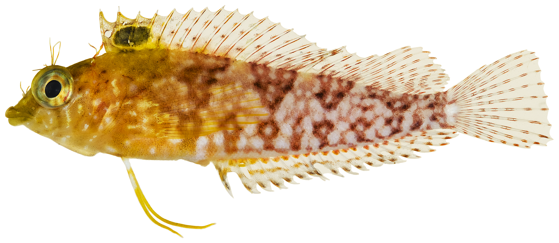 Malacoctenus boehlkei Springer, 1959—diamond blenny, 36.3 mm SL. Photo by JT Williams.